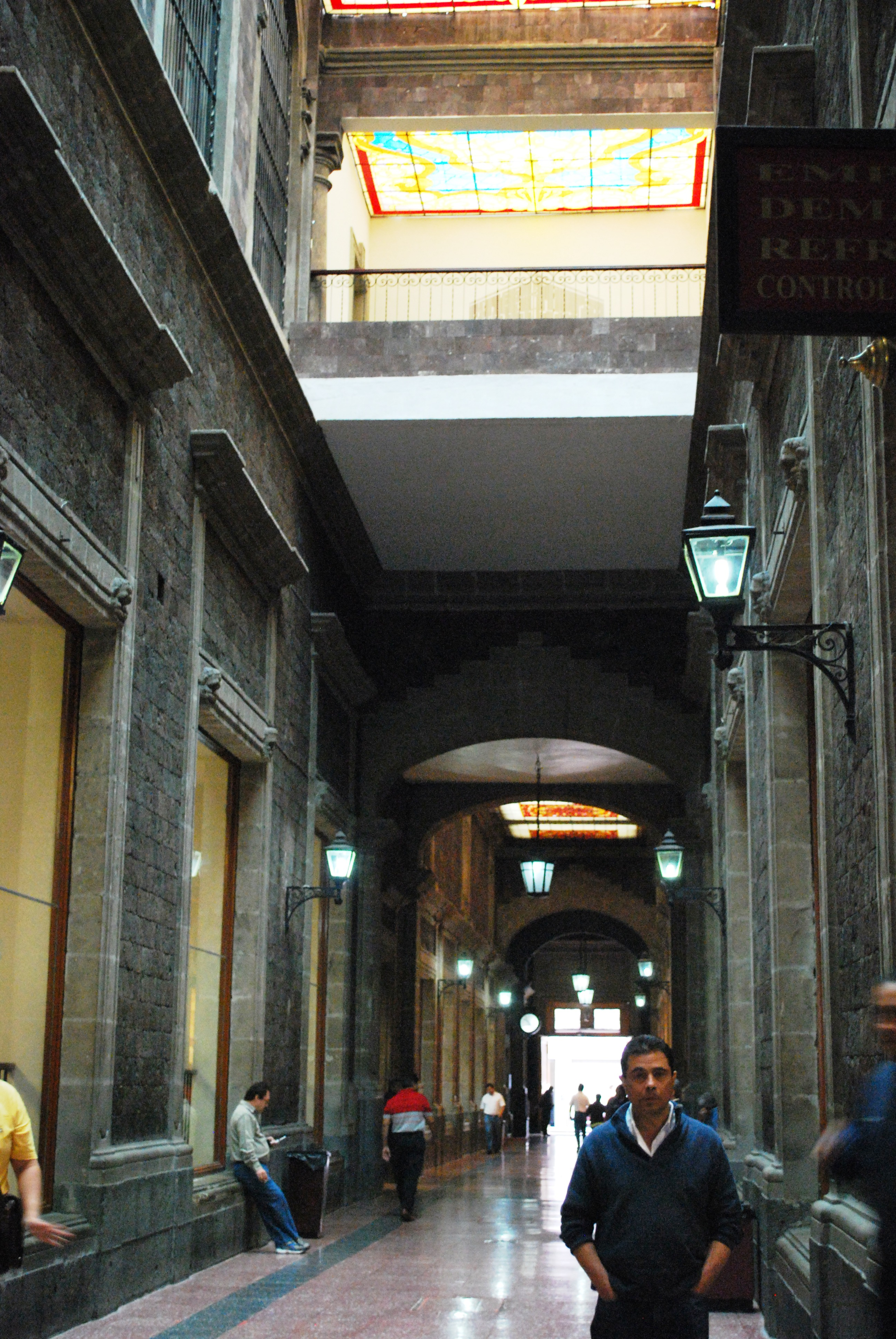 Main hallway of the Nacional Monte de Piedad building located just off the main plaza of Mexico City